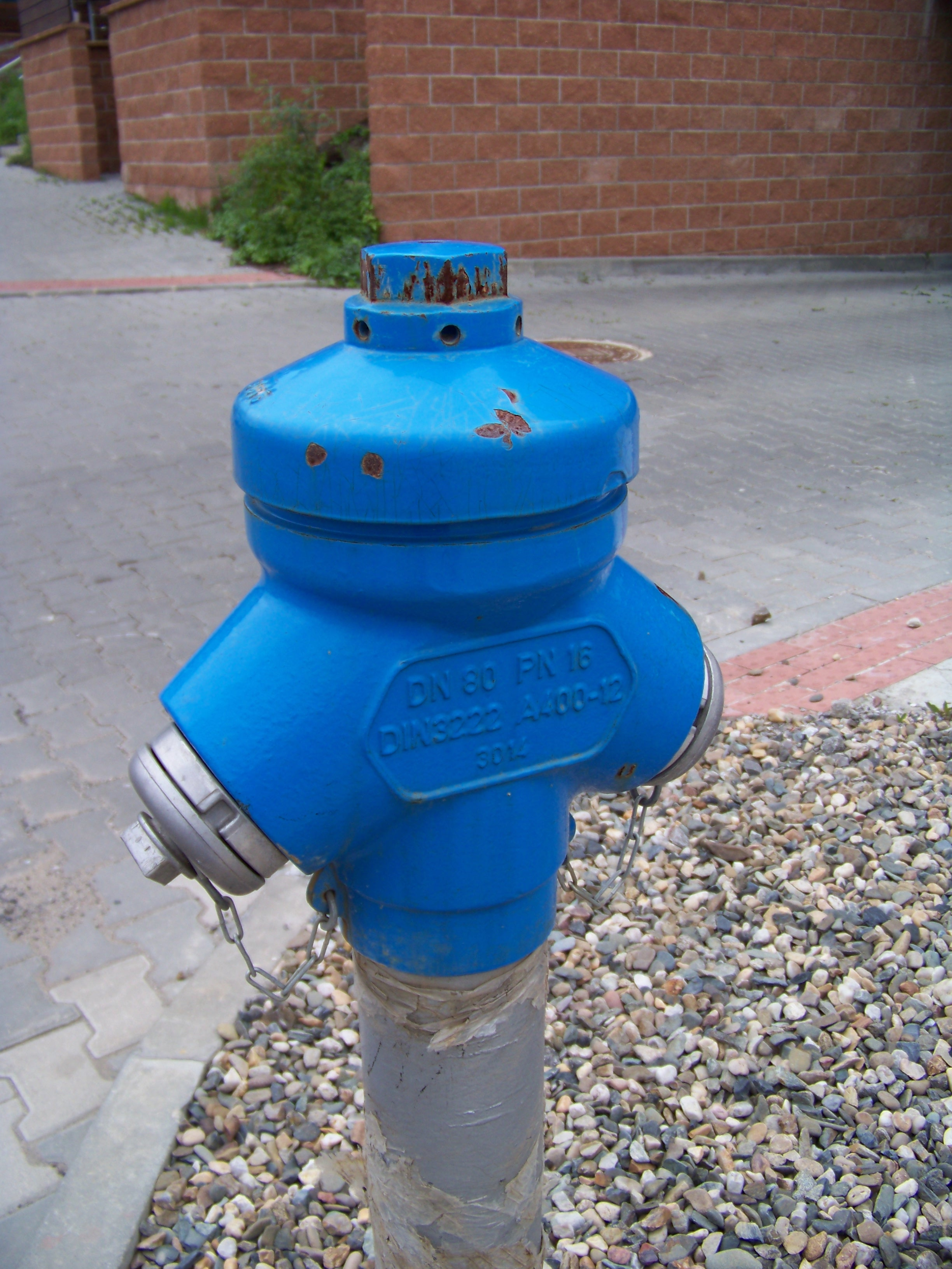 Hostivař, Prague, the Czech Republic. Vladycká street, a fire hydrant.